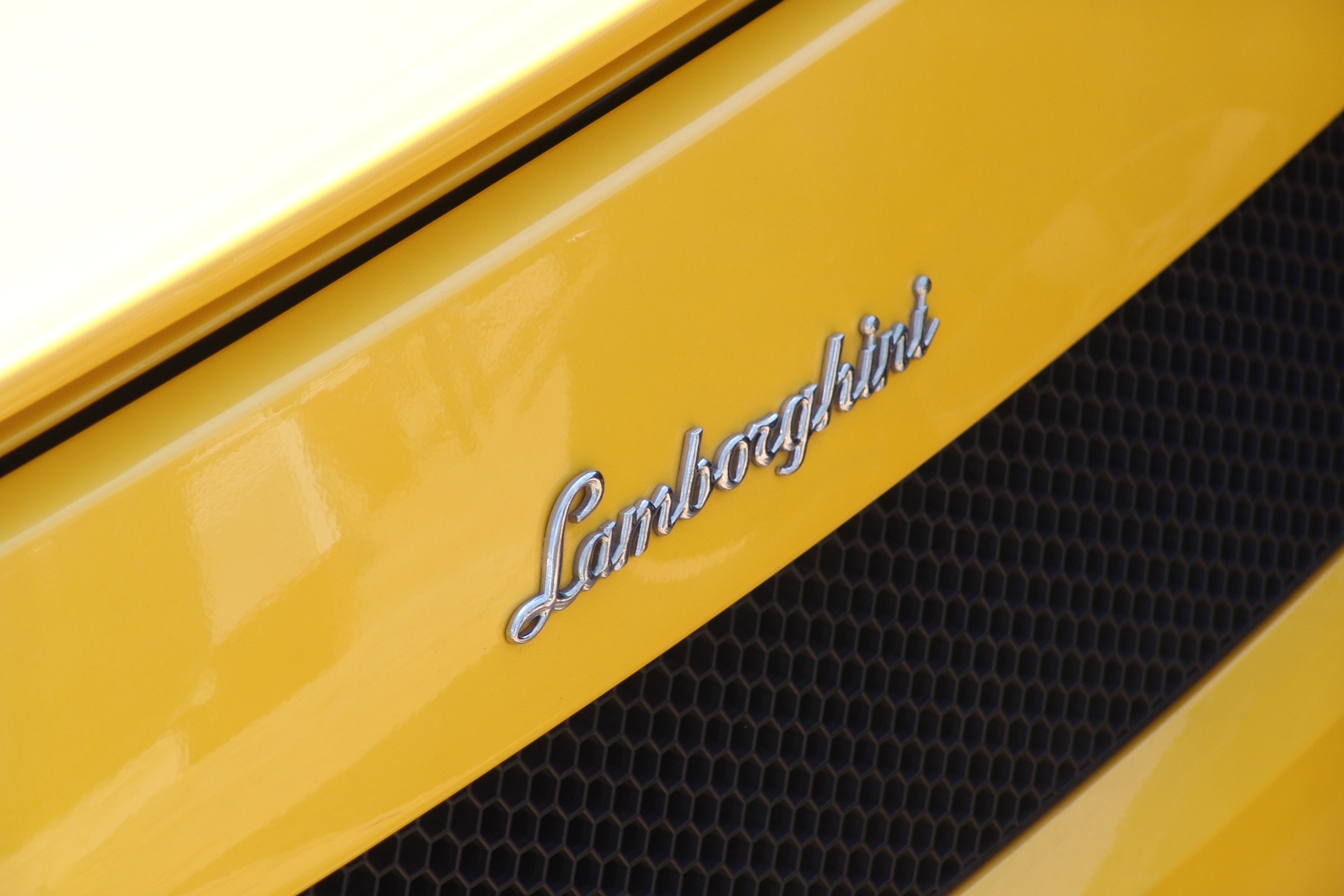 the Lamborghini logotype